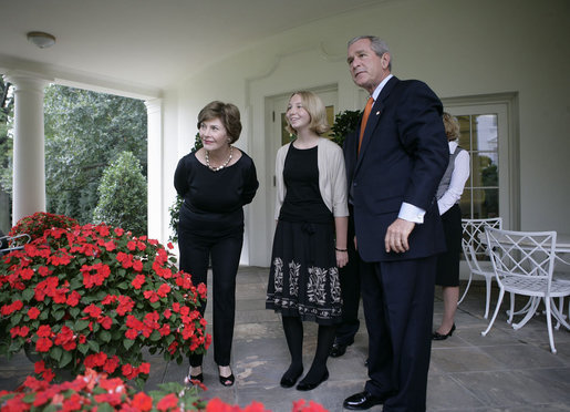 President George W. Bush and Mrs. Laura Bush are joined outside the Oval Office by the 2006 National Spelling Bee Champion, Kerry Close, as they call for Barney and Miss Beazley Friday, Sept. 22, 2006. The 9th grader from Spring Lake, N.J., won the competition by correctly spelling the word "Ursprache." White House photo by Eric Draper